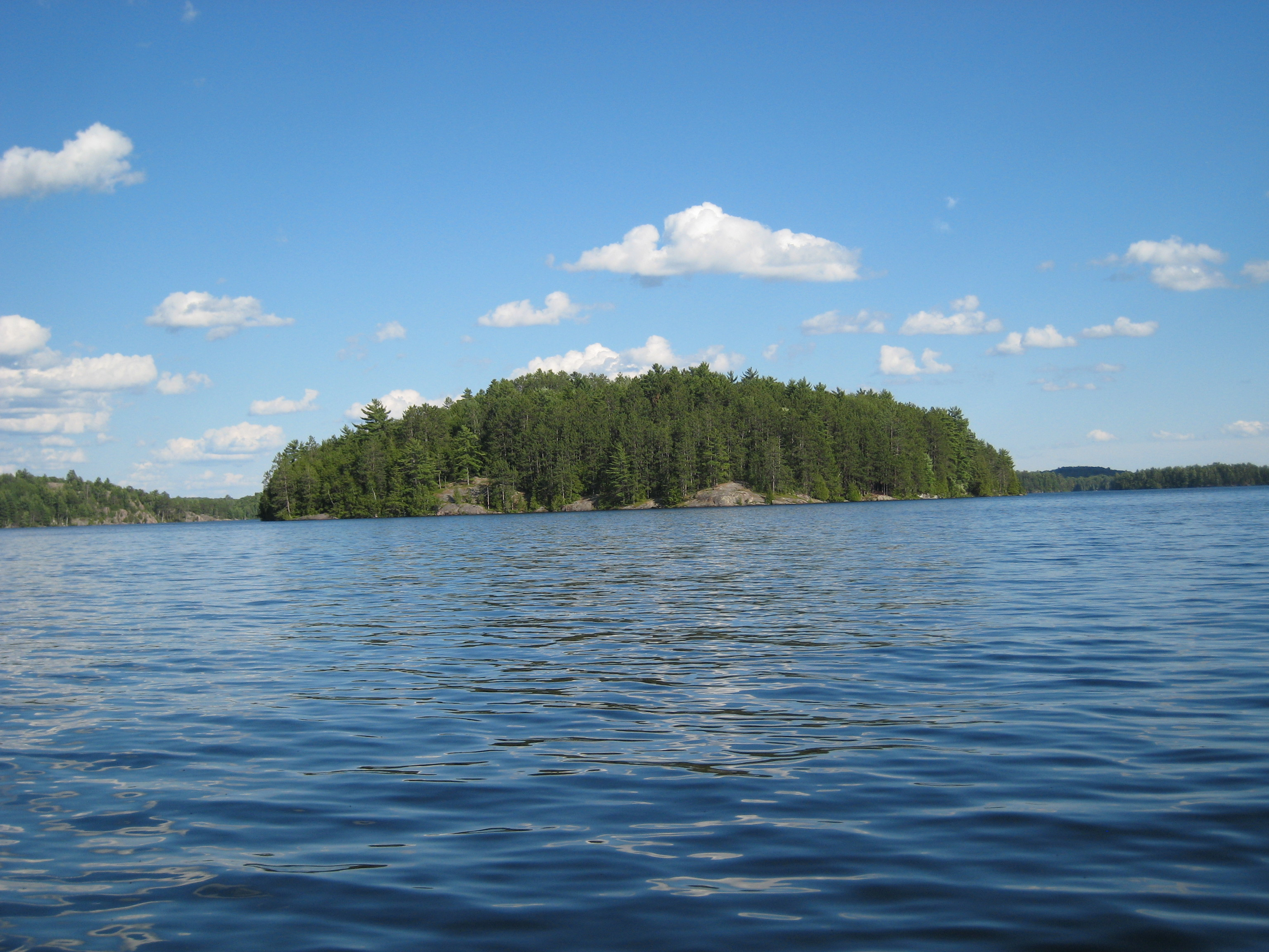 BIG Island, Site of First Paudash Cottage